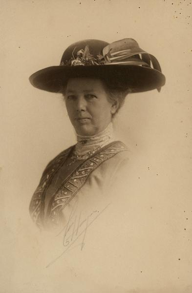 Clara Bewick Colby.